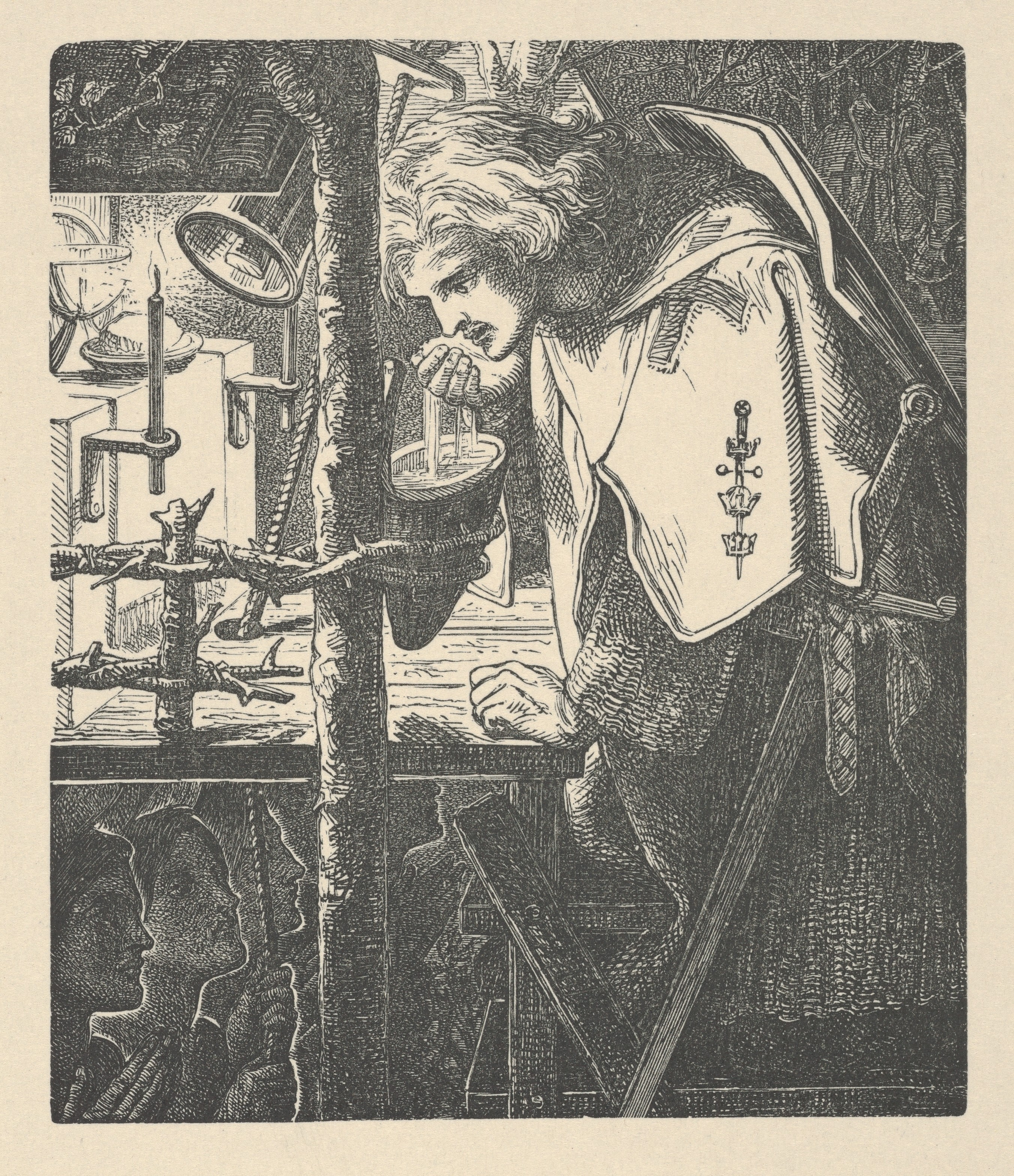 Print; Prints